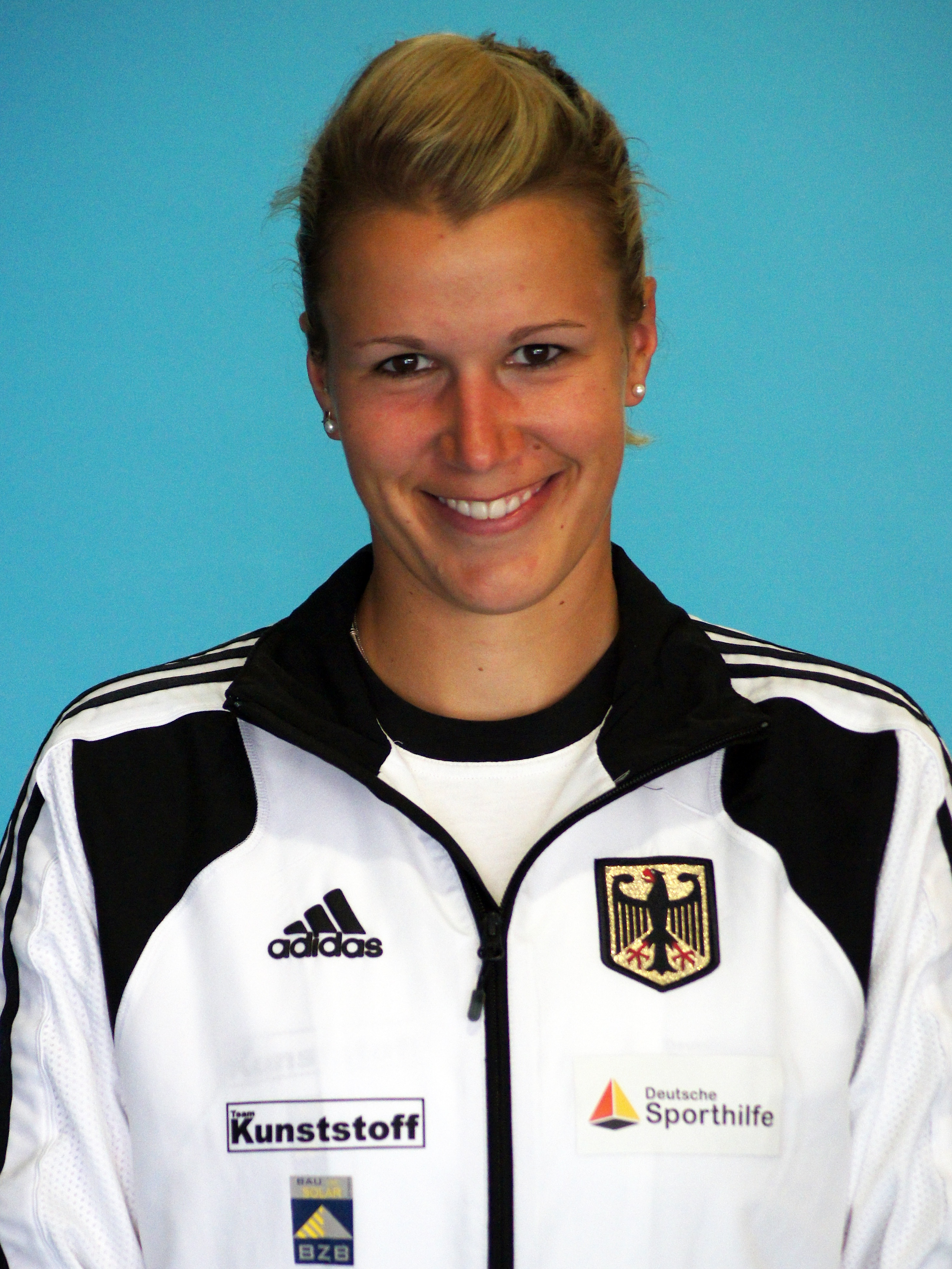 German Olympic Goldmedalist 2012 in Canoe-Sprint (Bild: O.Strubel)